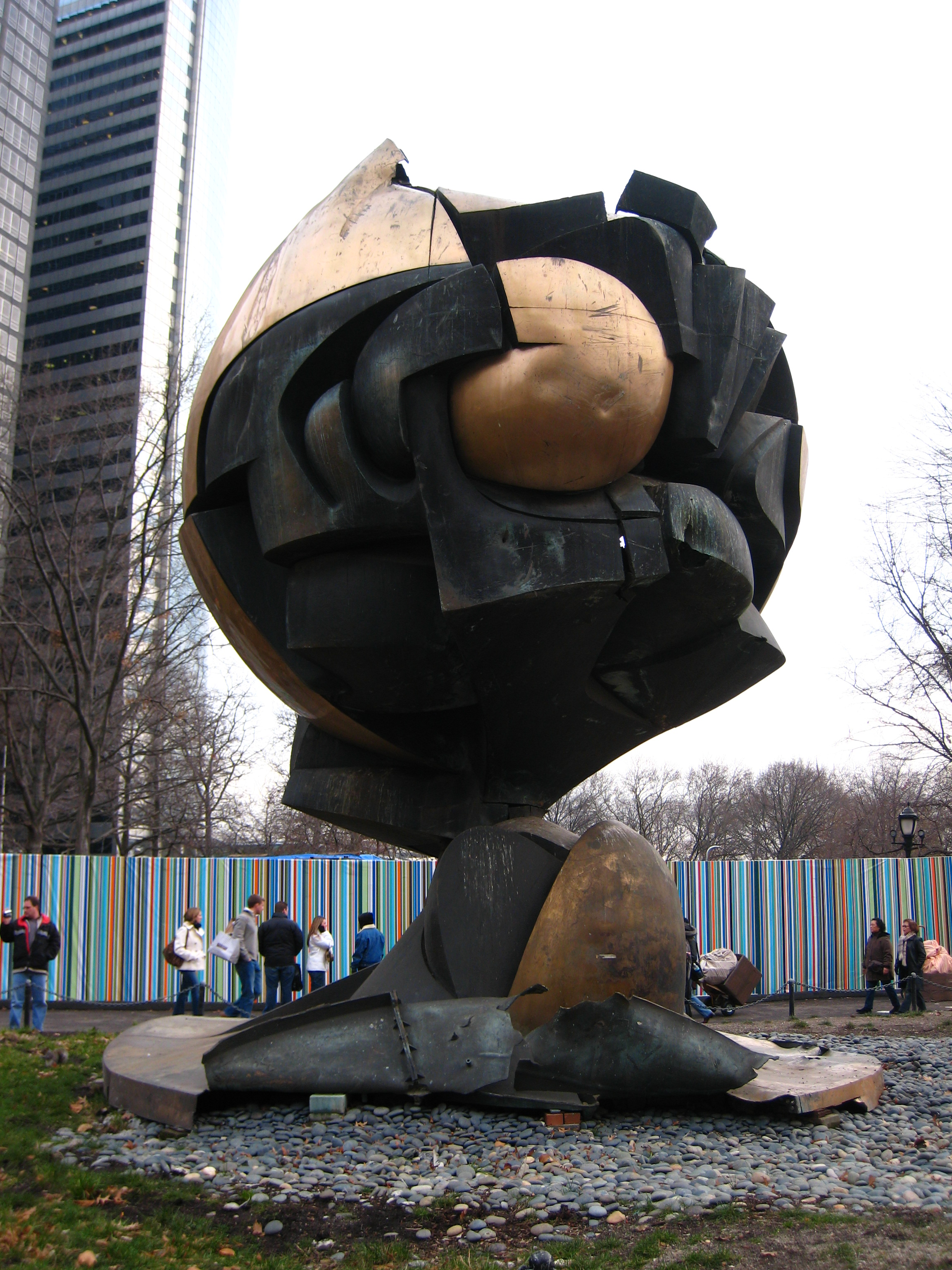 "The Sphere" by Fritz Koenig from the World Trade Center photographed to Battery Park. New York, as a memorial for the 9/11 terrorist attacks.